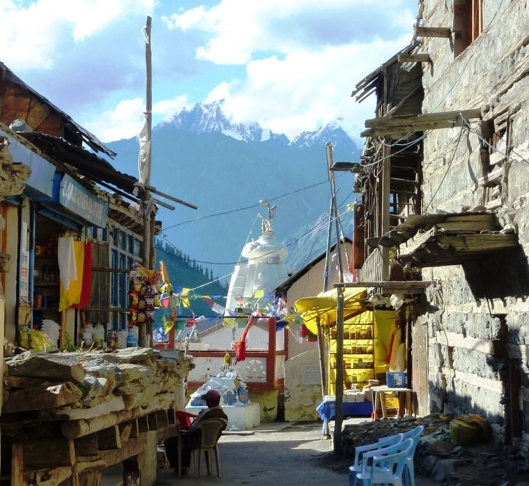 Snapshot of street with temple in the distance